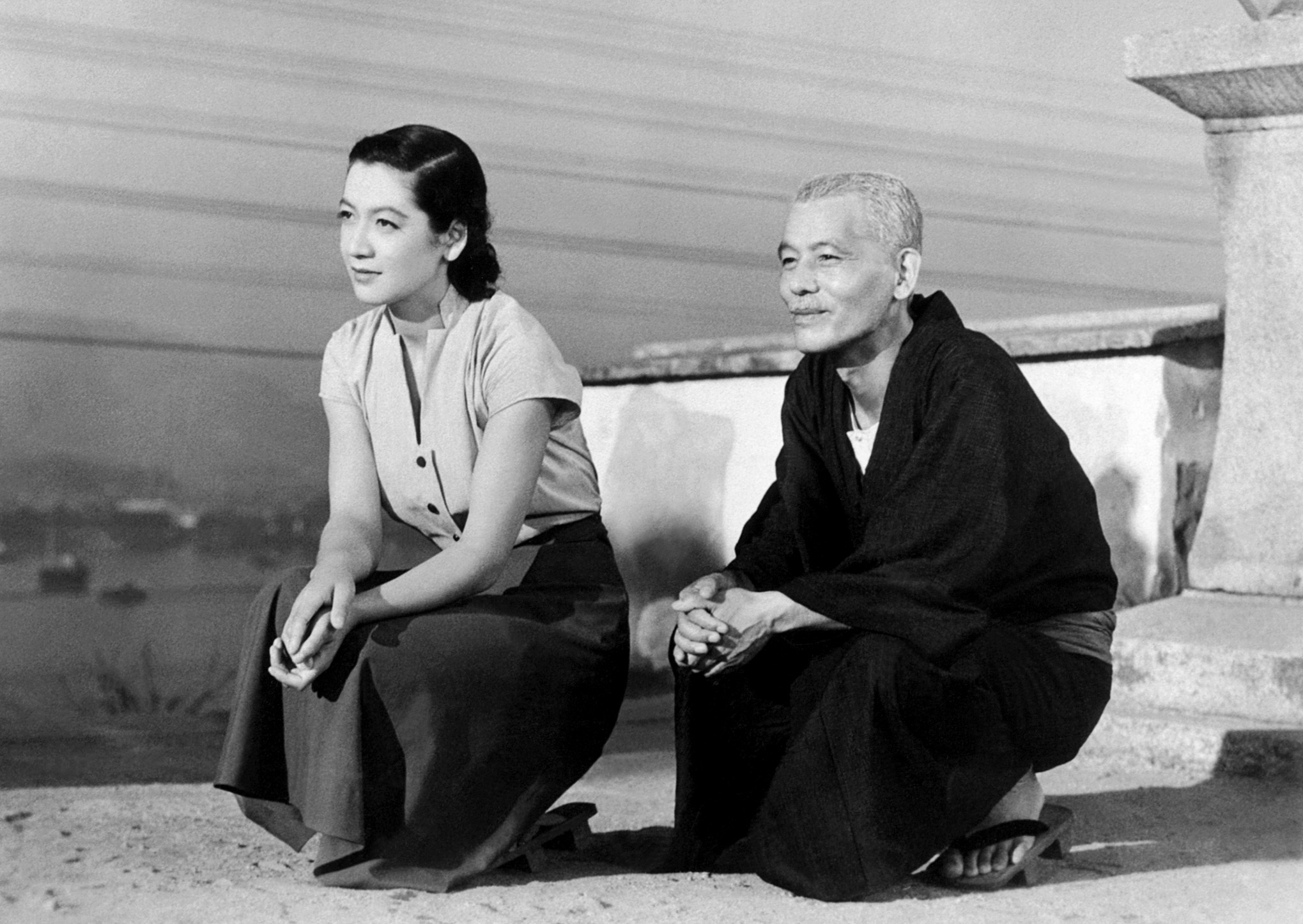 Setsuko Hara and Chishu Ryu in the Japanese motion picture Tokyo Story (1953).